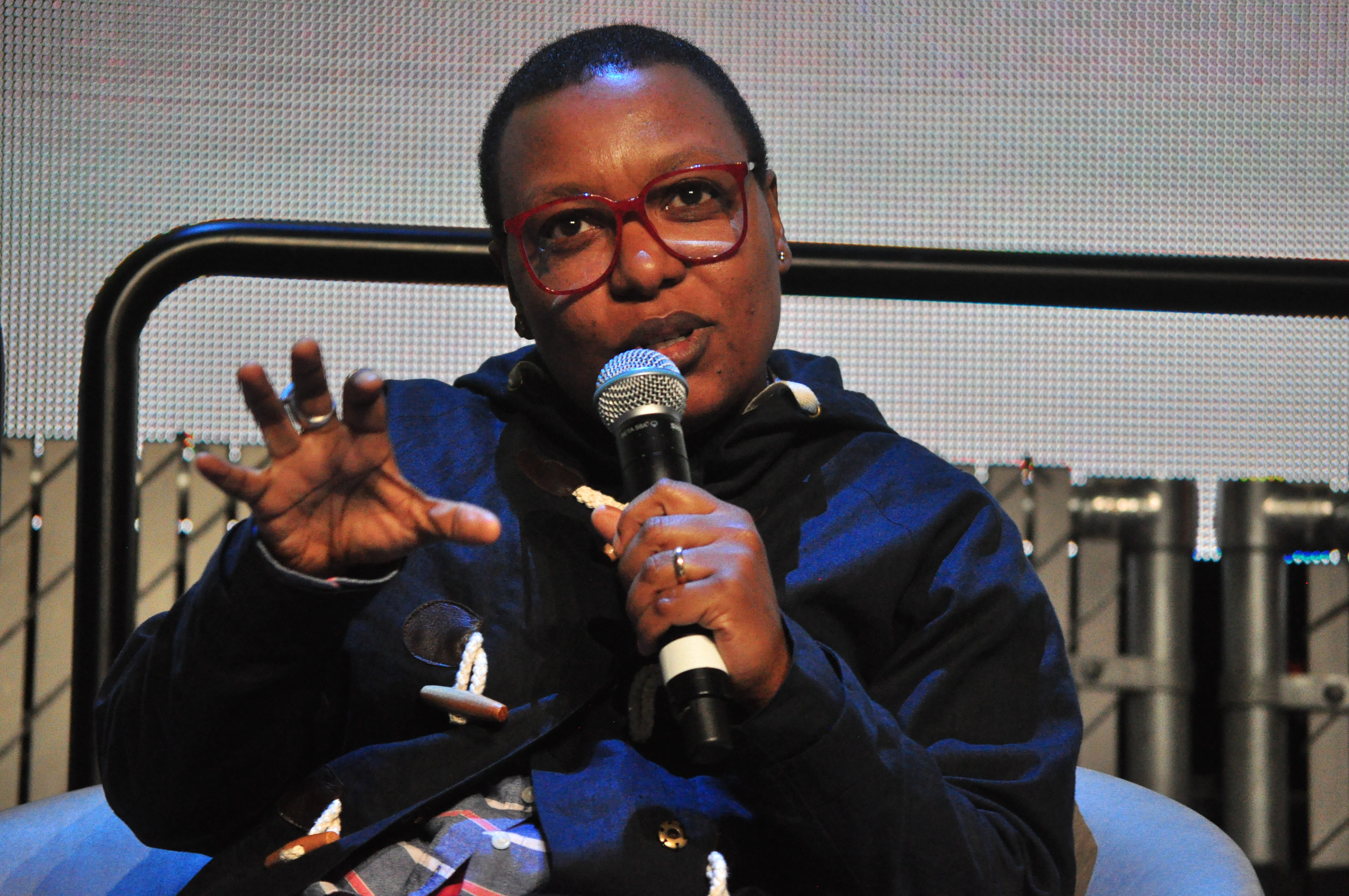 Meshell Ndegeocello, on the keynote panel of 2014 Pop Conference, EMP Museum, Seattle, Washington, U.S.